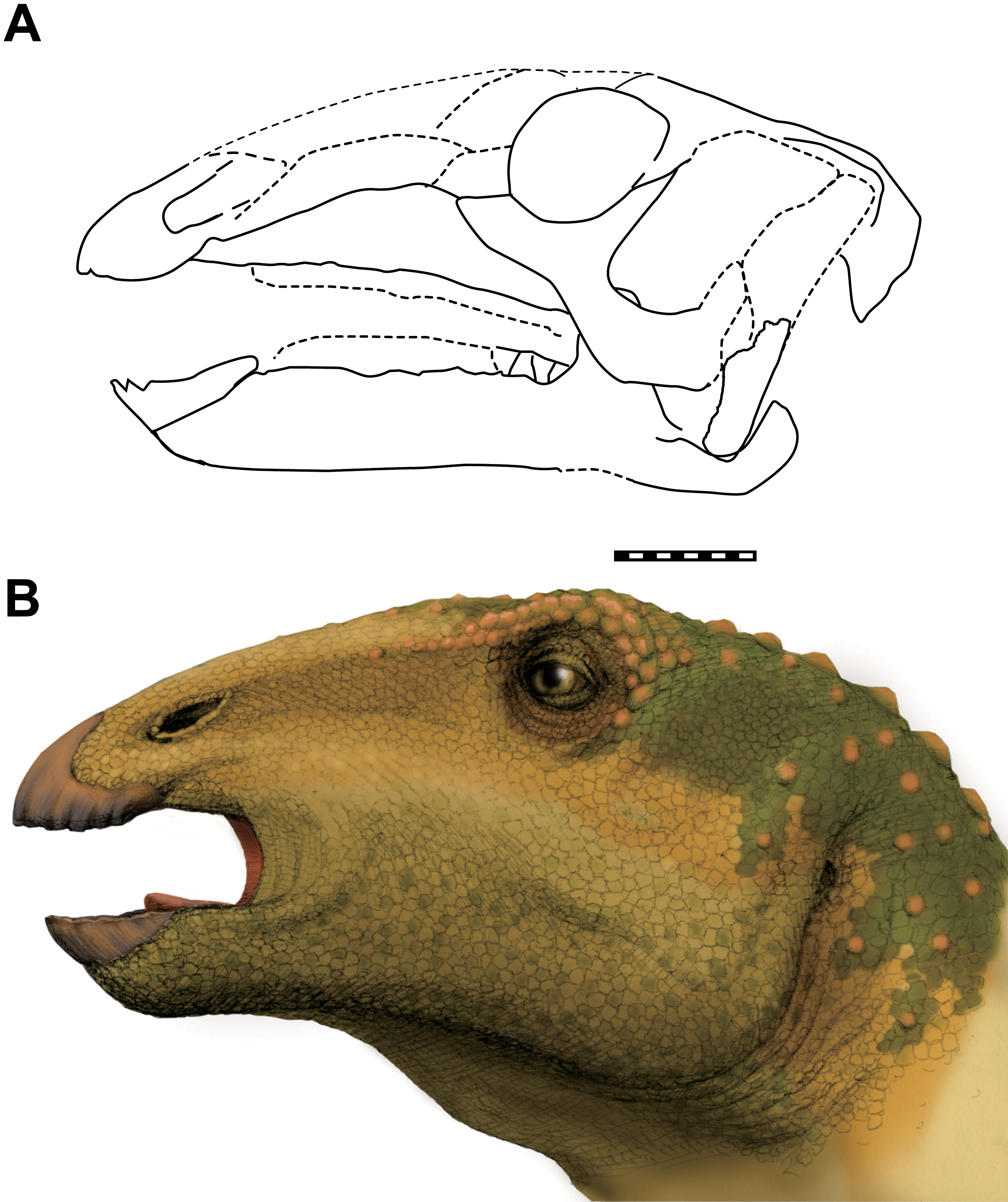 Skull of Sirindhorna khoratensis. (A) A composite skull reconstruction of Sirindhorna. Several elements are reversed. (B) Life restoration of the head of Sirindhorna by Yoko Ohnish. Scale bar equals 10 cm. Dashed line indicates missing elements.